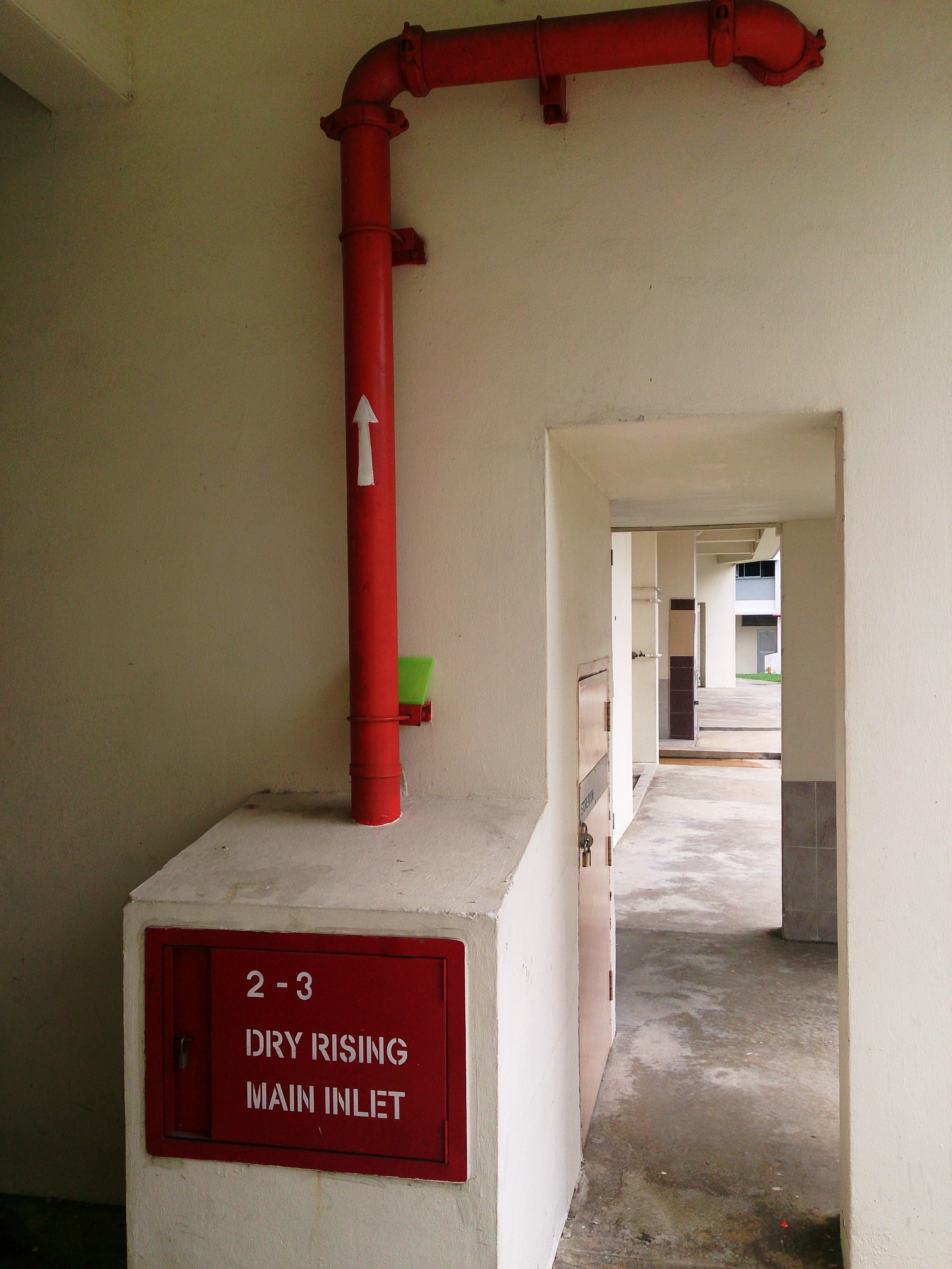 Dry riser found at the ground floor of flats to be used during fire fighting